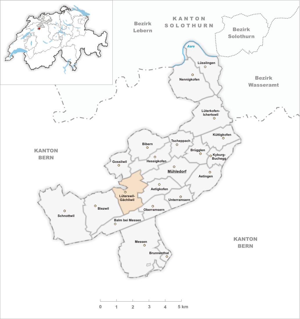 Municipality Lüterswil-Gächliwil